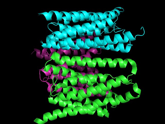 OsSWEET2, published in RCSB by Tao, Y., Perry, K., and Feng, L. 2015-07-24, released 2015-10-28. Image and false coloration generated by Xu, S. in PyMOL on 2016-03-01.